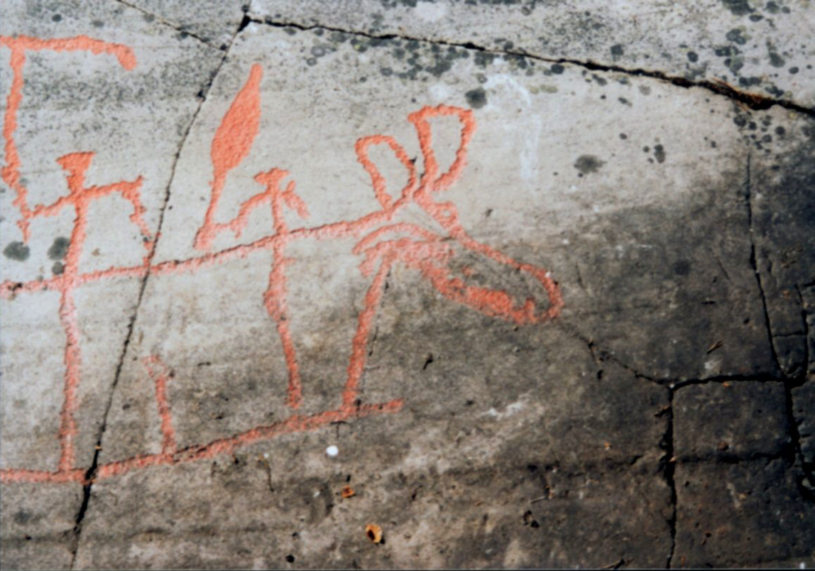 Detail from the Rock carvings at Alta, Finnmark, Norway showing the bow of a boat with an elaborate decoration in the shape of a moose's head. Photo taken by Ferkelparade and released under the GFDL